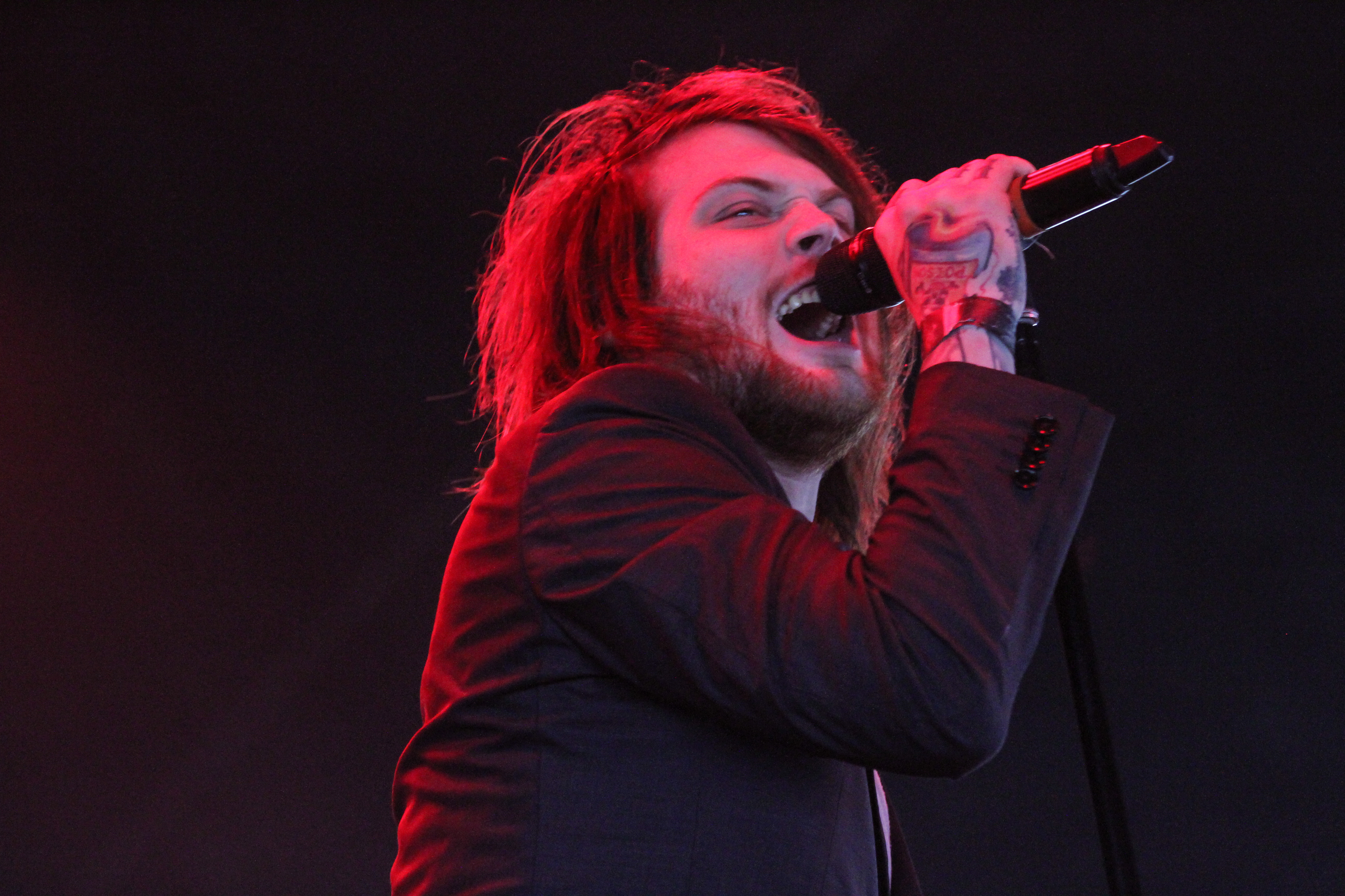 Asking Alexandria at With Full Force Festival 2013